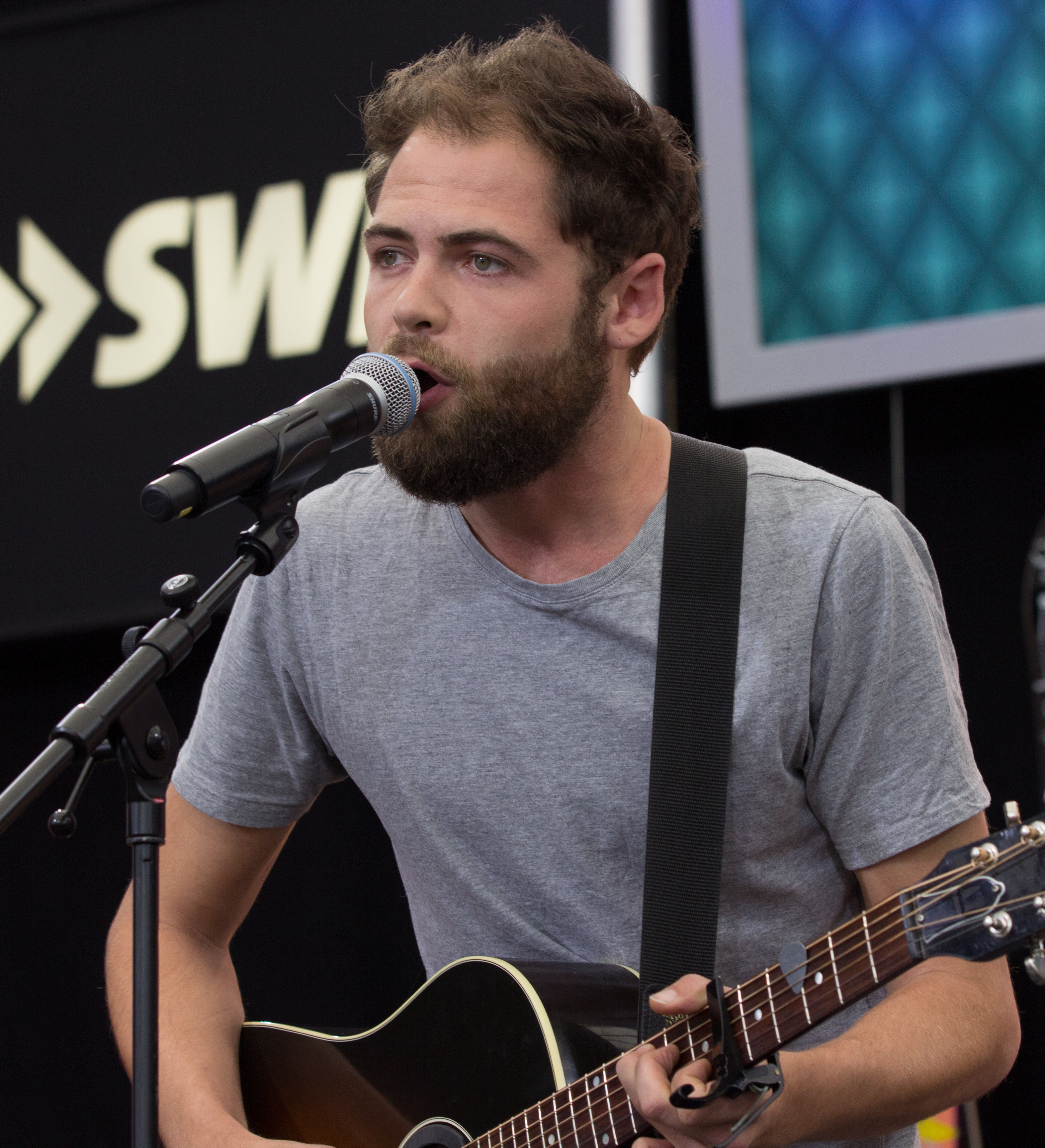 Mike Rosenberg alias Passenger at the SWR3 New Pop Festival in Baden-Baden 2013 Festivalsommer This photo was created with the support of donations to Wikimedia Deutschland in the context of the CPB project "Festival Summer".